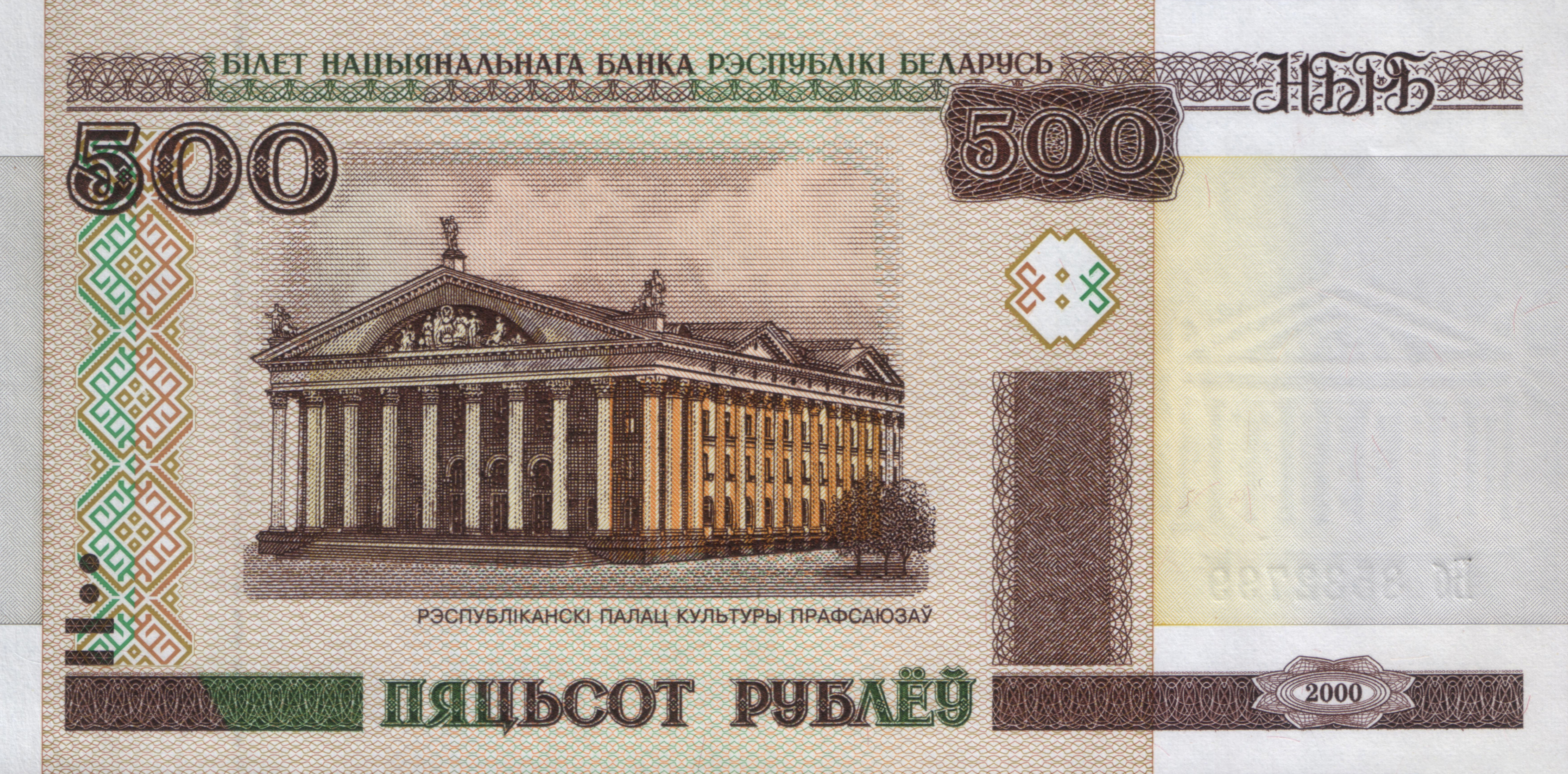 500 roubles of Belarus (2000)